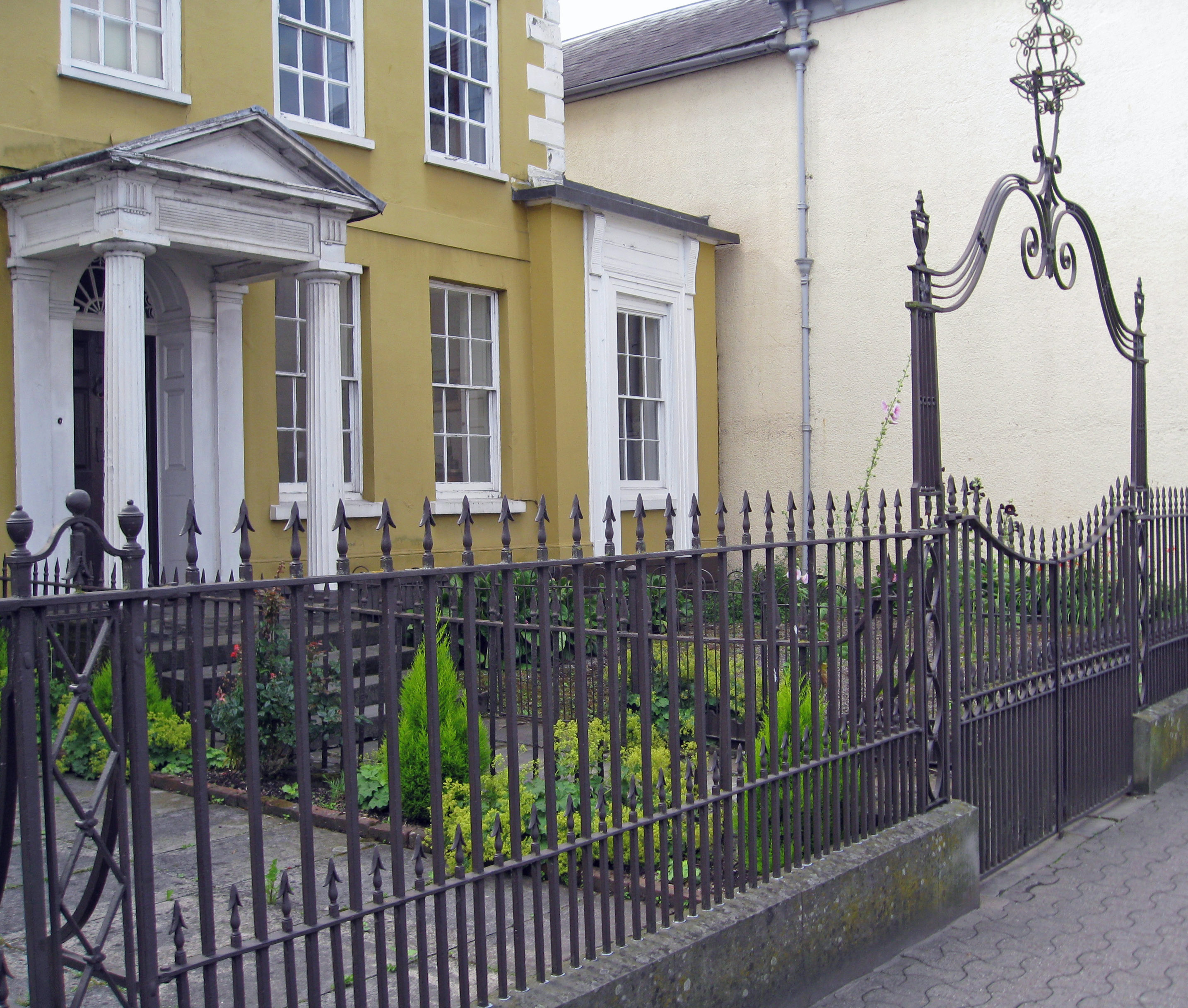 Cornwall House, Monmouth: Monnow Street facade